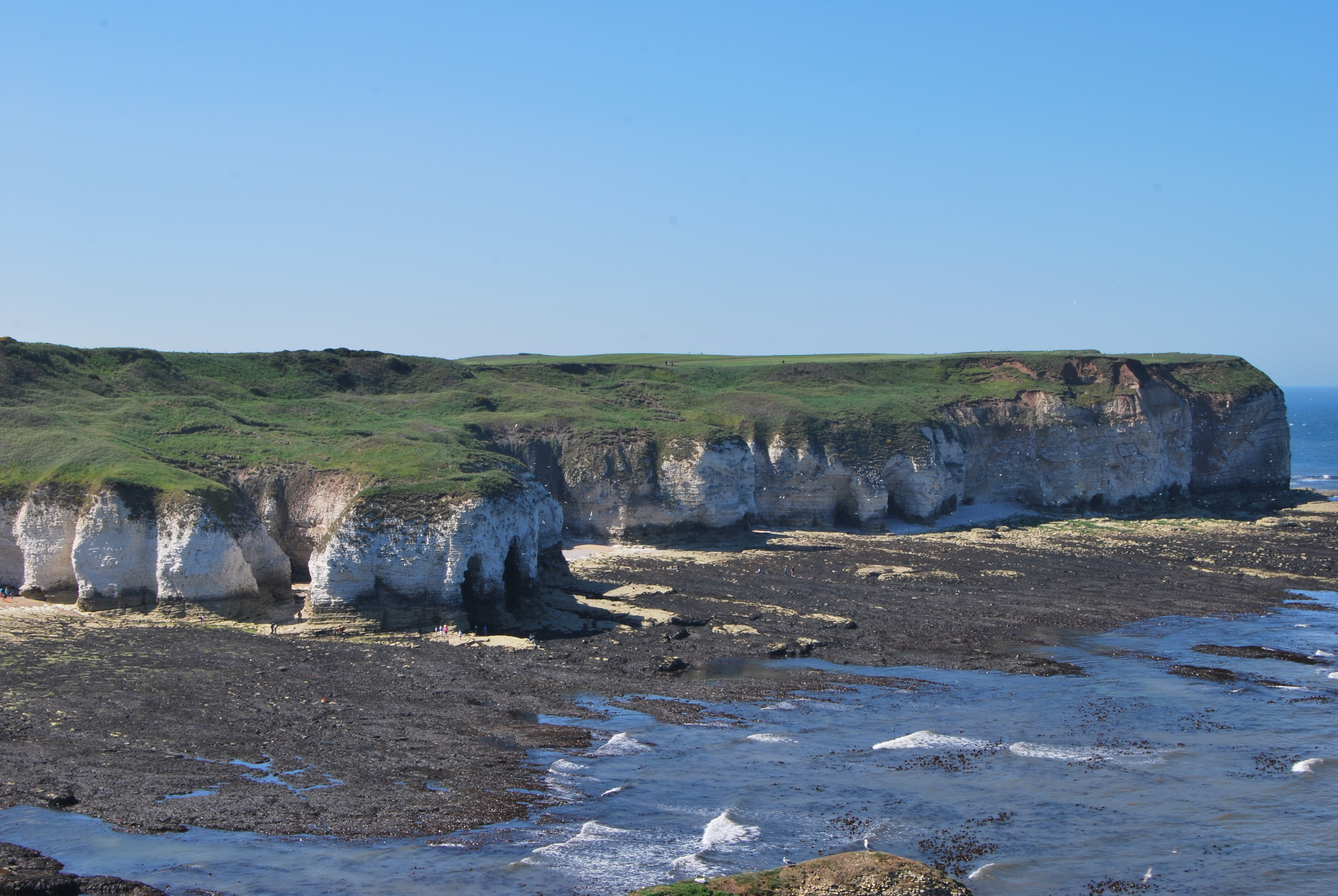 Cliffs at Flamborough Head, Flamborough, East Riding of Yorkshire, England.